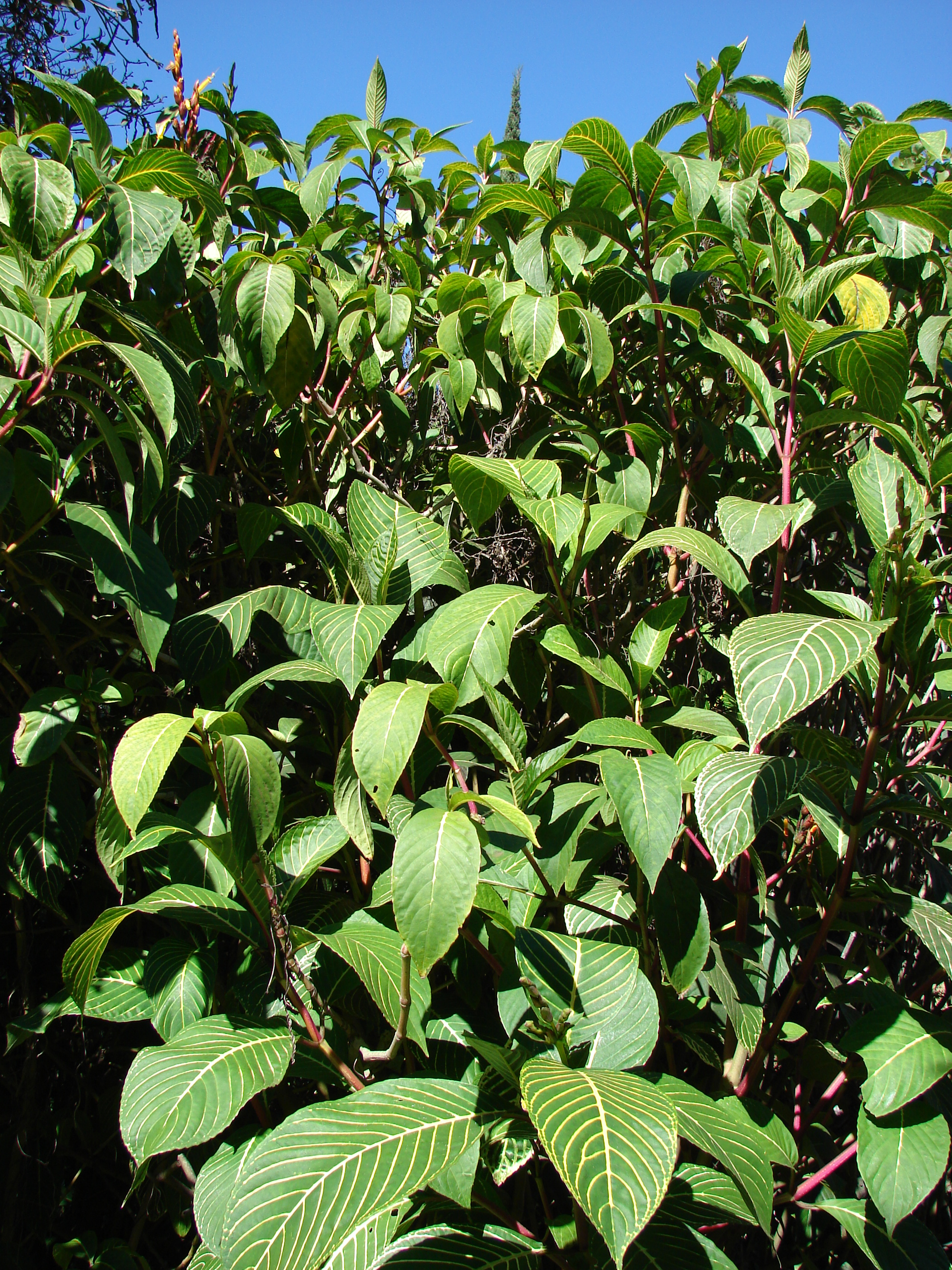 Sanchezia speciosa (habit). Location: Maui, Enchanting Floral Gardens of Kula